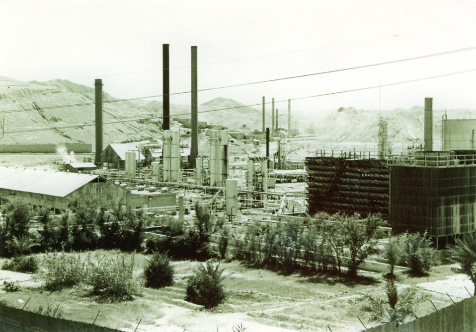 Masjed soleyman Gas Refinery - Khuzestan Province - Iran.